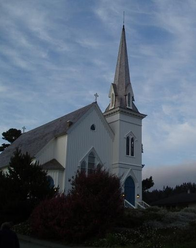 Mendocino Presbyterian Church, cropped from File:Mendocino Church.jpg to show only church building